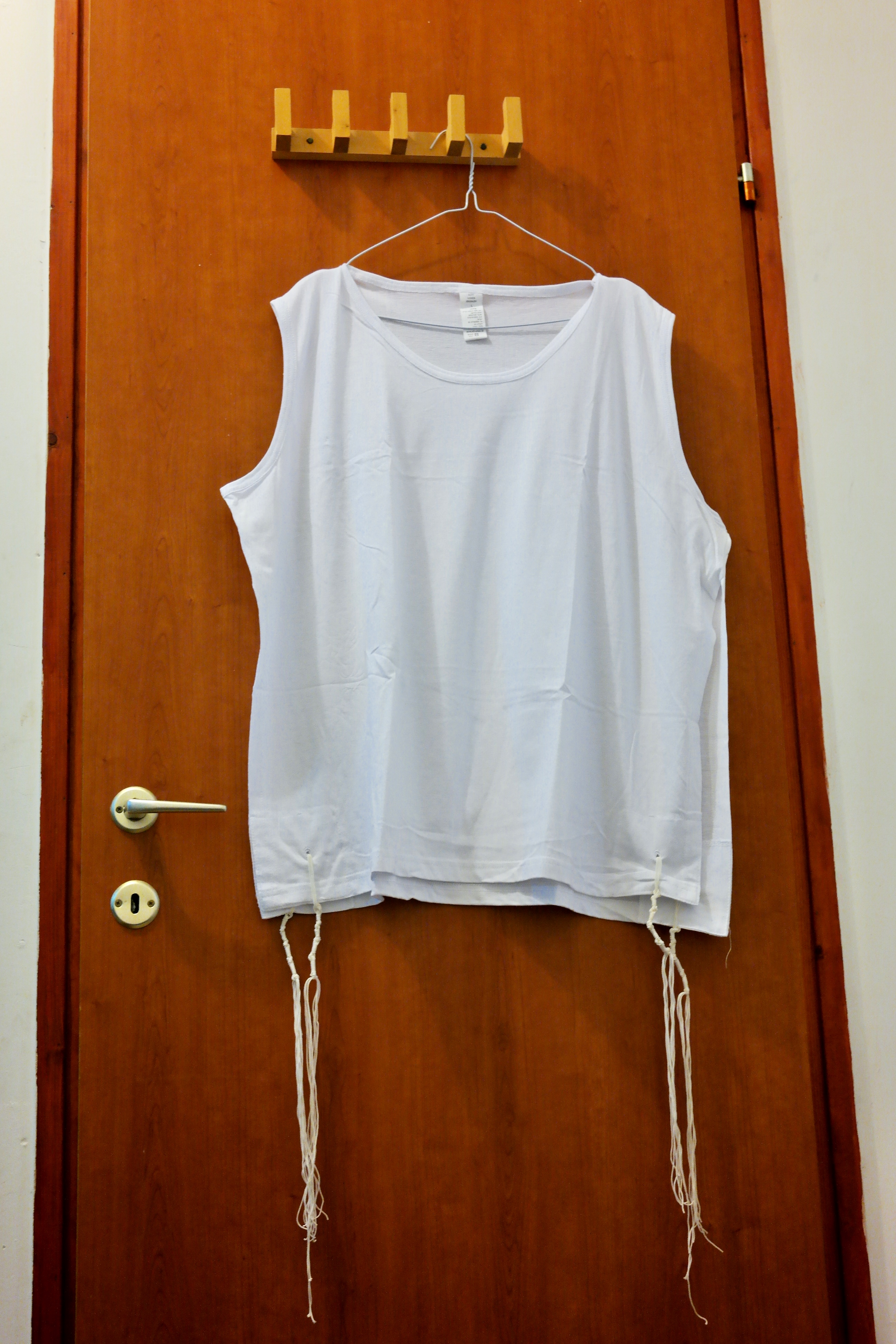 T-shirt style tallit katan, made of the same cotton fabric used for t-shirts